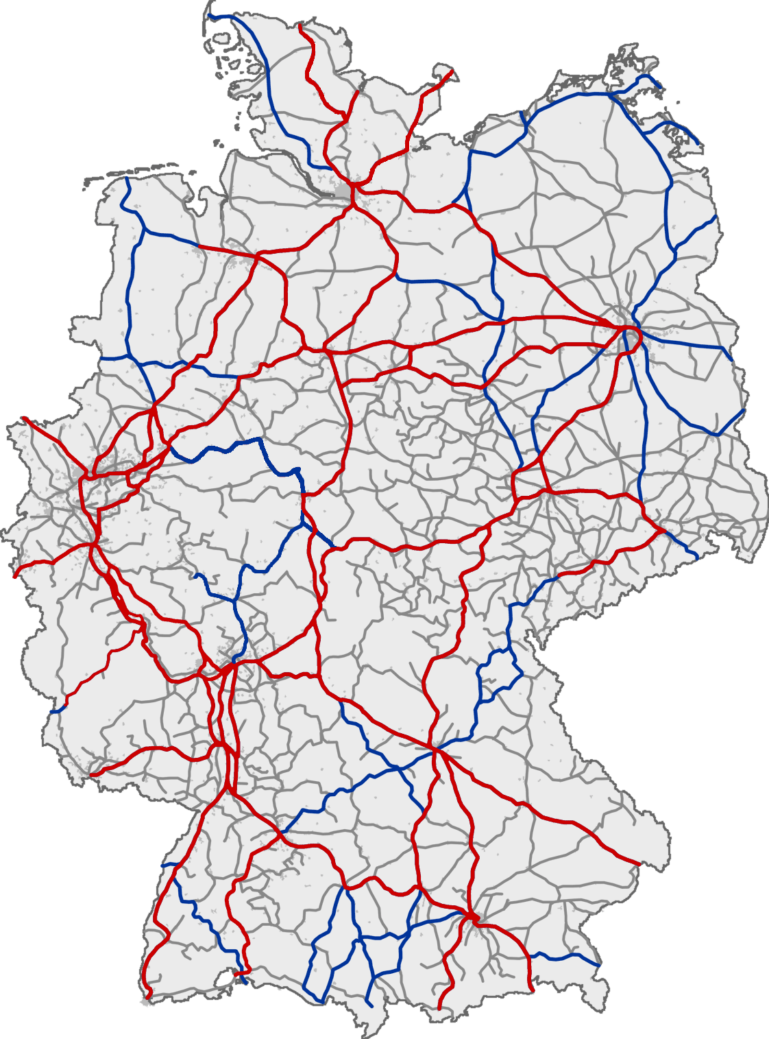 Railway network of Germany. Red: lines with InterCityExpress traffic; blue: lines with InterCity/EuroCity traffic; grey: lines with other passenger traffic